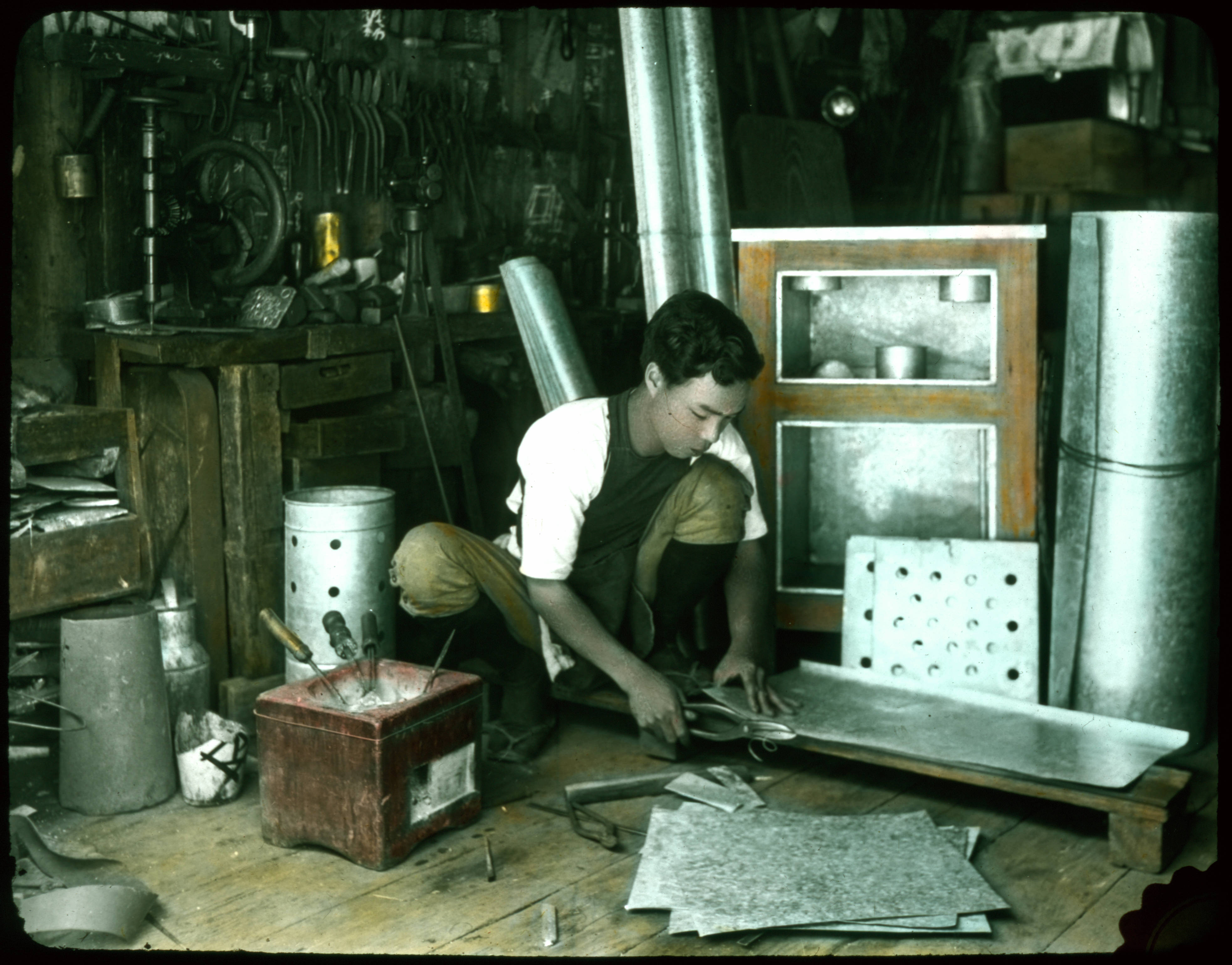 Item is a photographic glass-plate transparency; part of a set of colour-tinted transparencies depicting life in Japan ca. 1910, including scenery, street scenes, workers, farming, fishing, silk production, stone carvers, wood carvers, metal workers, potters, and artists.